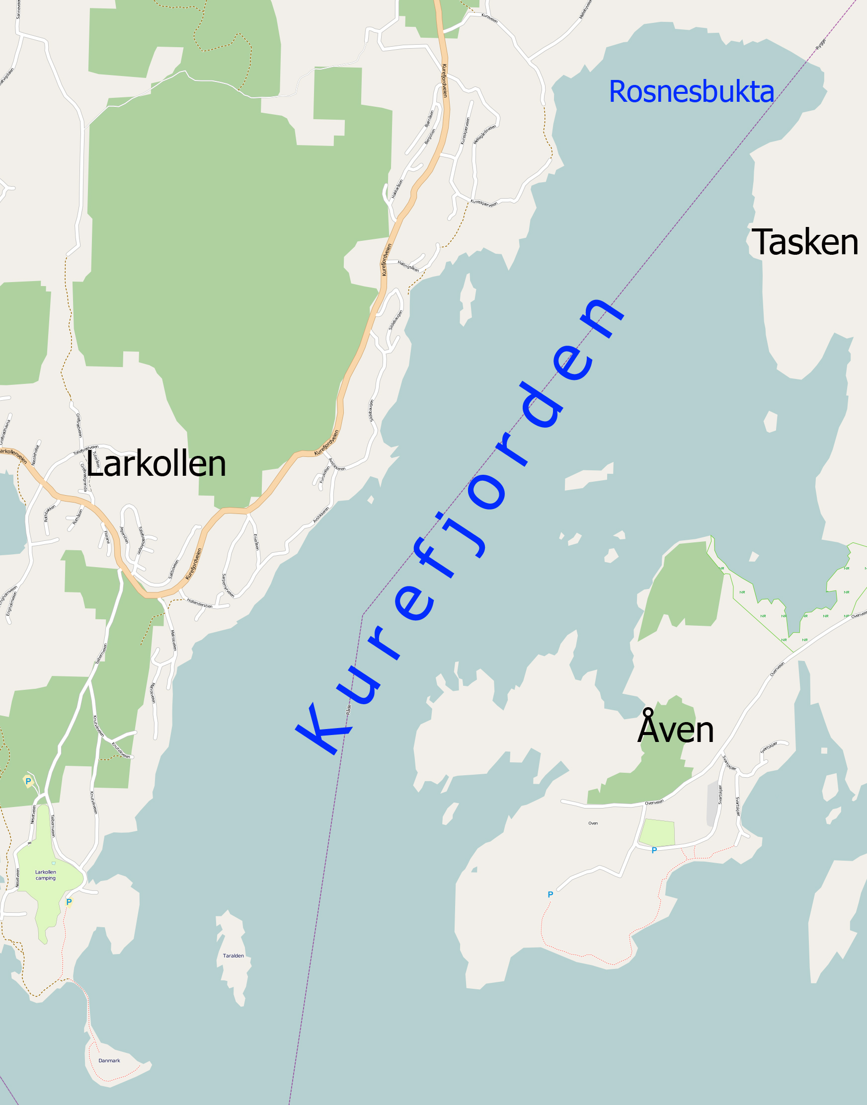 Kurefjorden bay This map may be incomplete, and may contain errors. Don't rely solely on it for navigation.